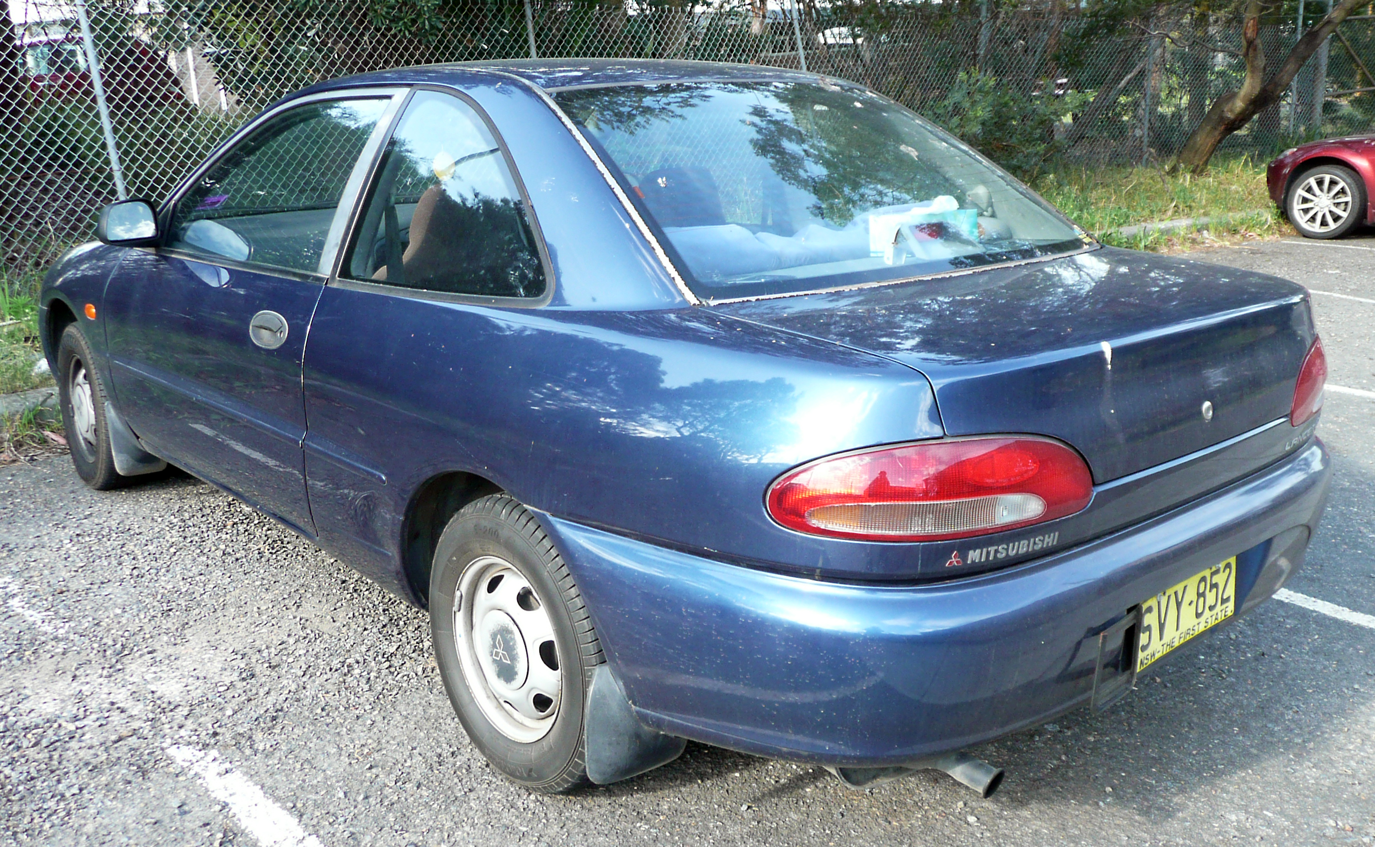 1992–1995 Mitsubishi Lancer (CC) GLXi coupe. Photographed in Loftus, New South Wales, Australia.